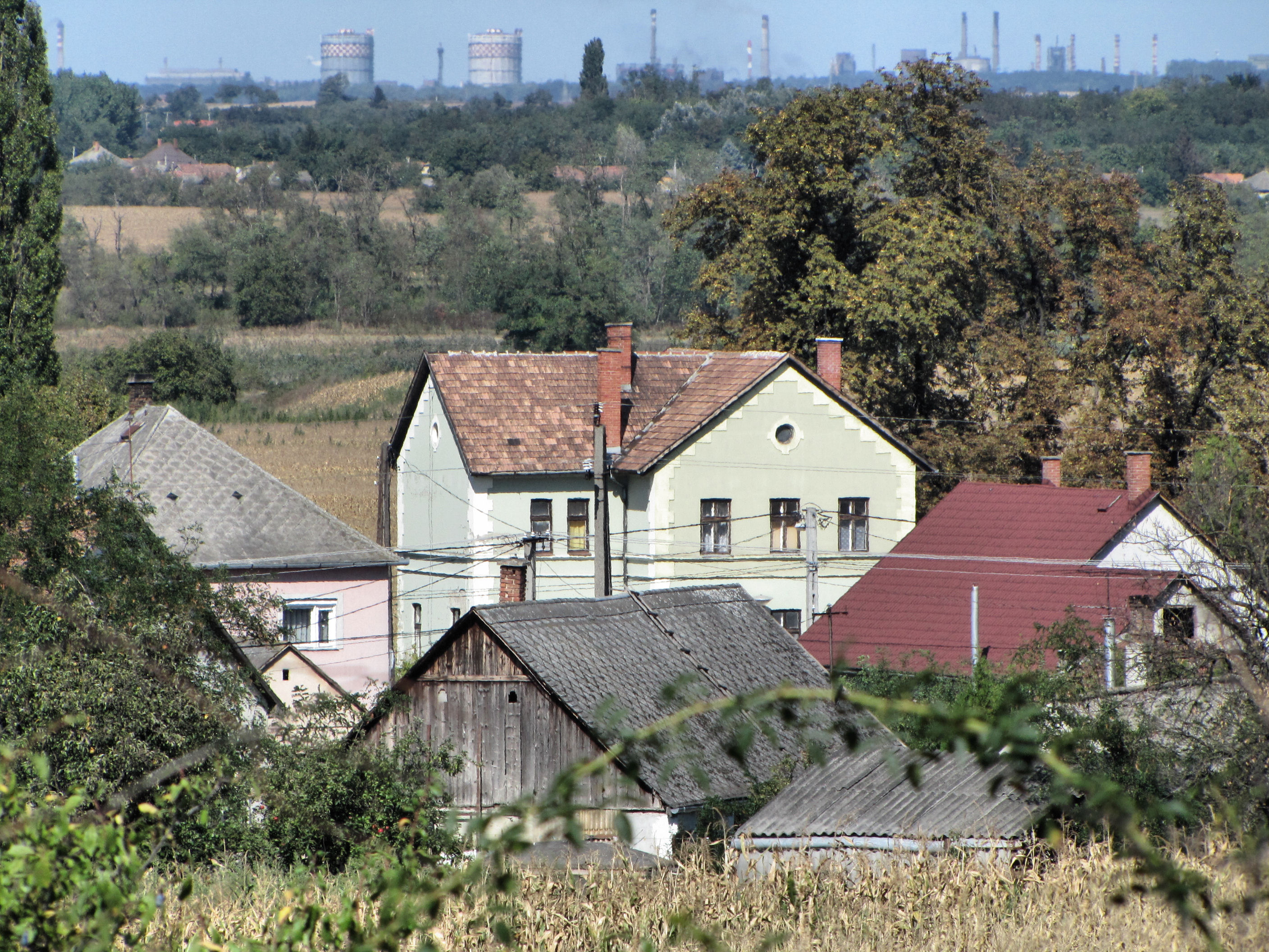 Előszállás, train station. Dunaújváros in the background.